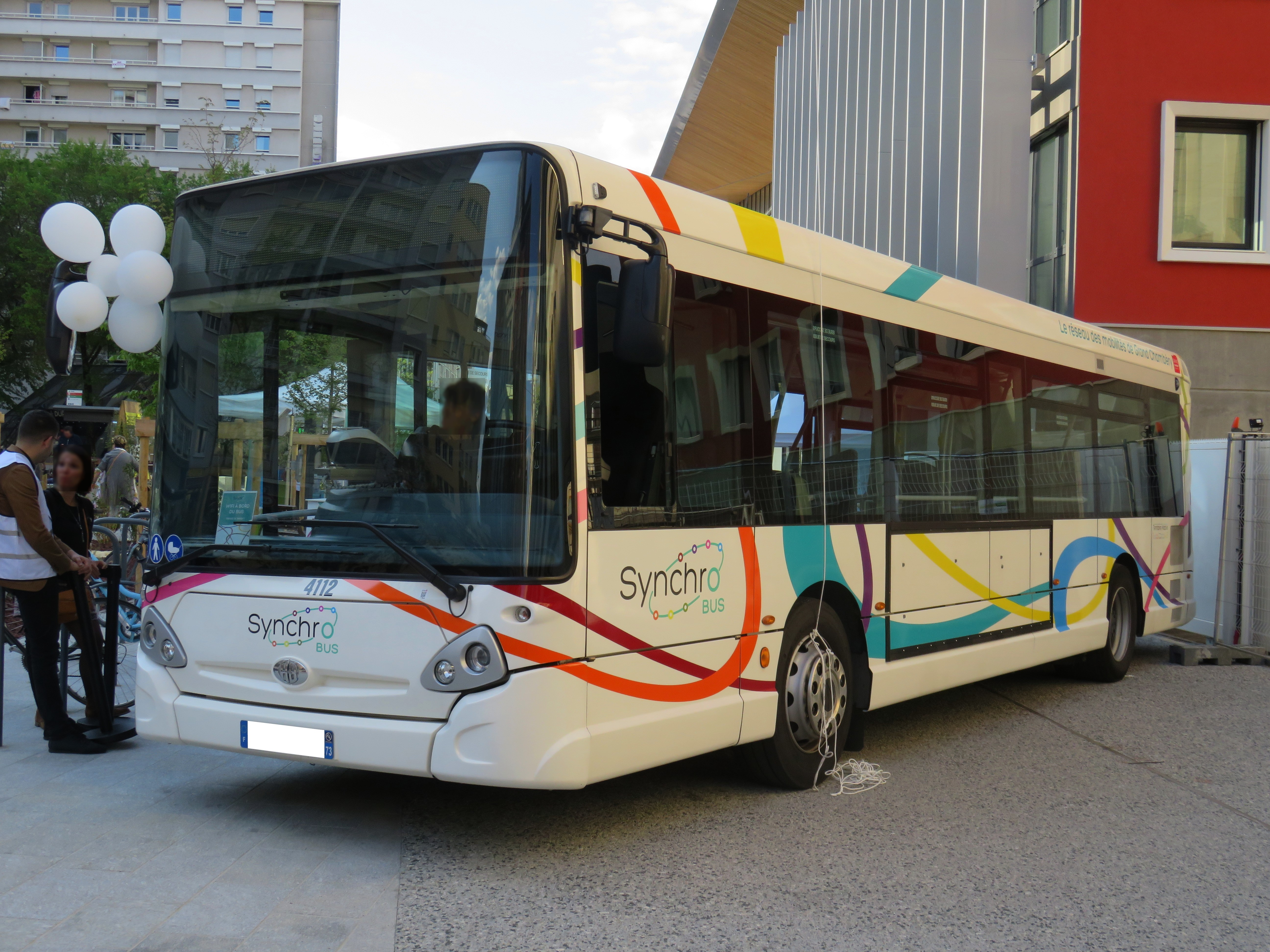 A Heuliez GX 137L (n°4112 of the French agglomeration community Grand Chambéry) parked in front of the train station (Chambéry, France) during the unveiling of the new brand of the mobility, Synchro, on April 19, 2019.